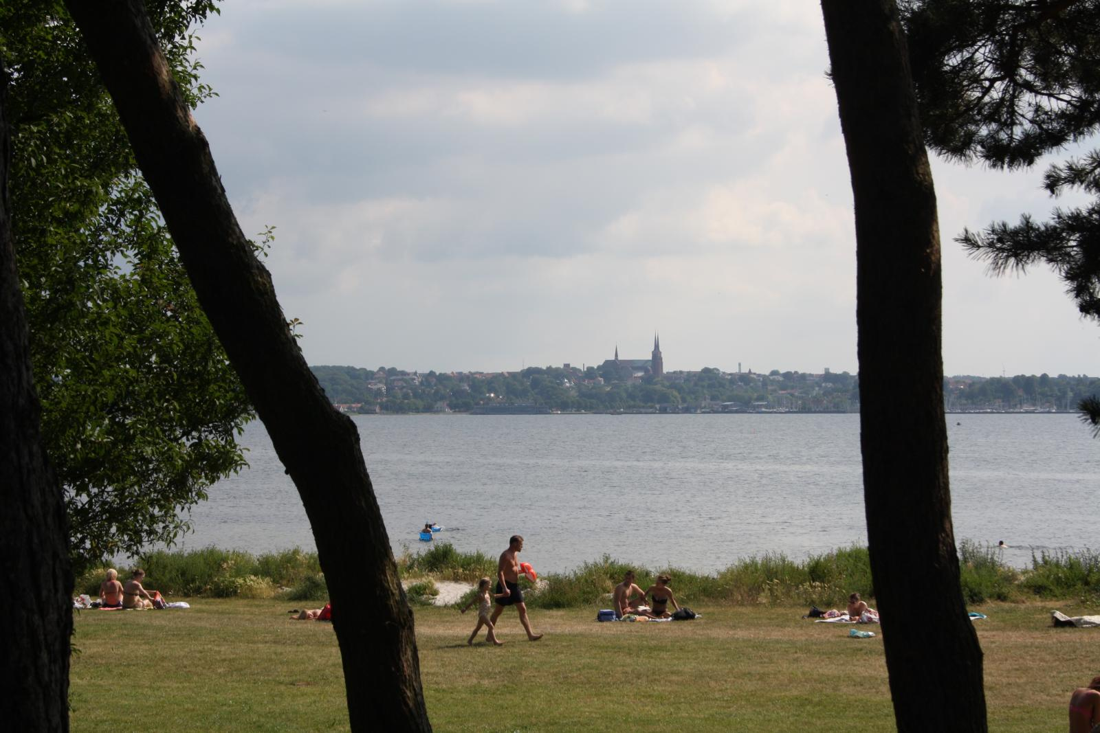 Roskilde Fhord with Roskilde Cathedral in the background in Roskilde, Denmark